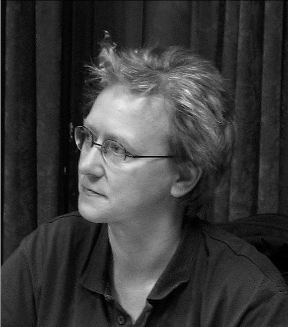 Black and white photograph of Jeannine Beeken Flemish linguist, 2011. jeannine beeken